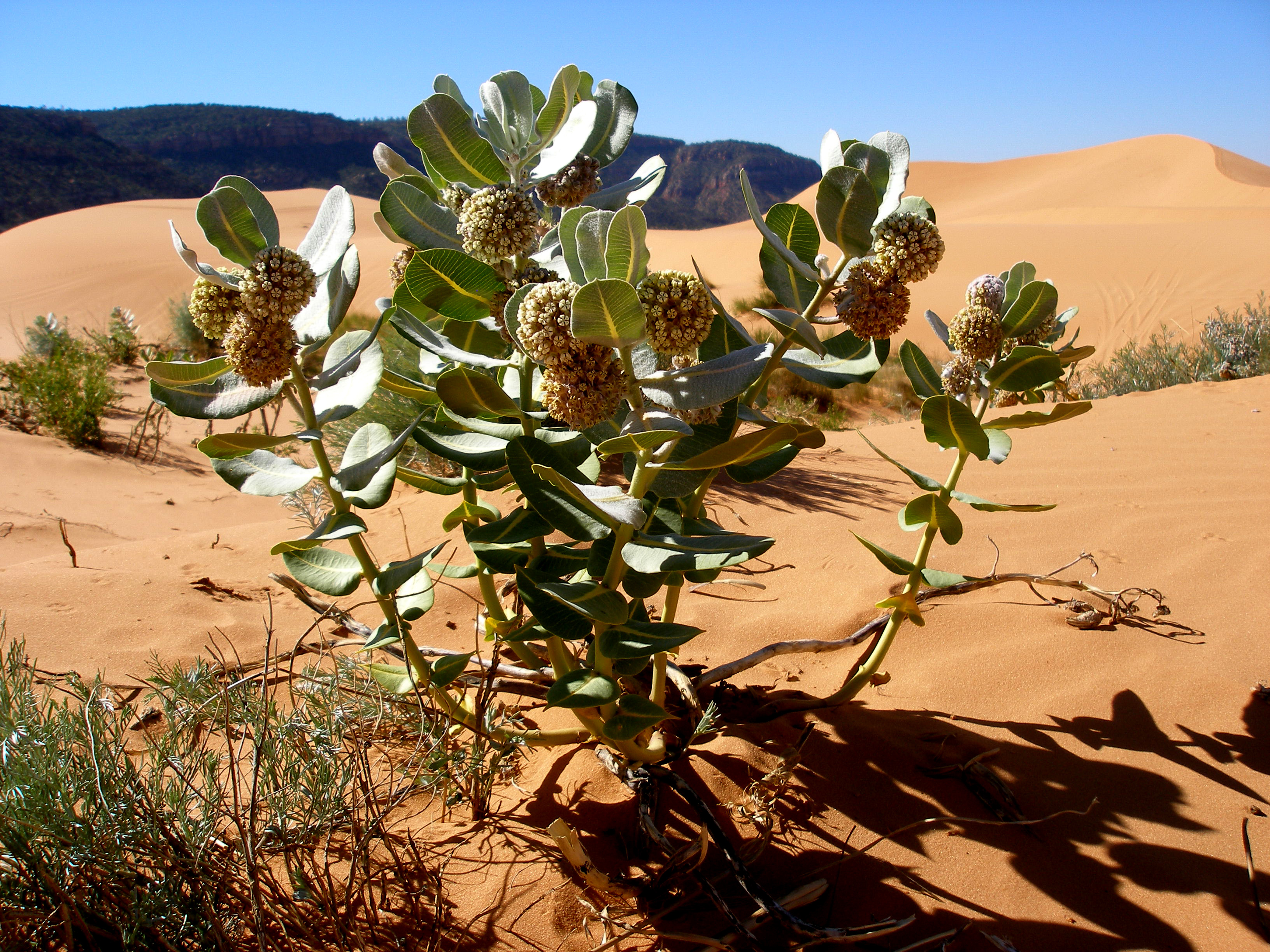 Asclepias welshii